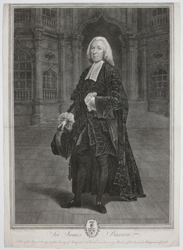 James Burrow by James Basire from a painting by Arthur Devis